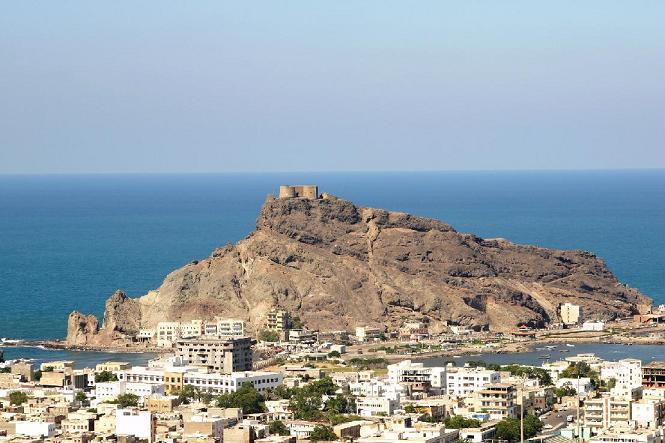 Photo of Sirah Island in Aden, Yemen